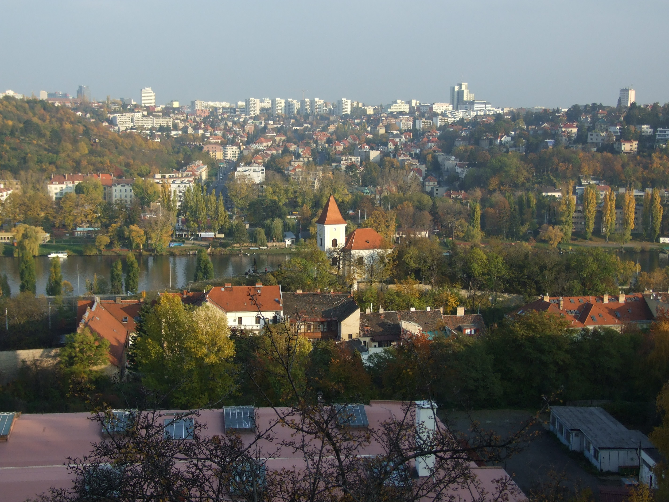 View on Zlíchov from Ctirad, natural reserve in Prague